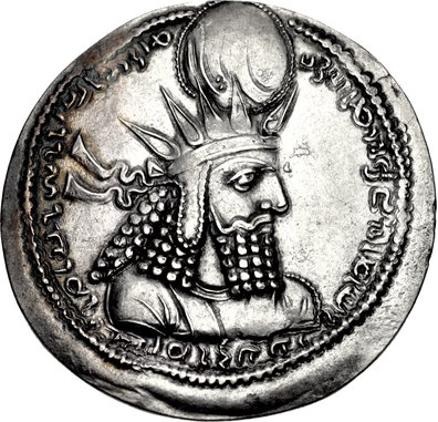 Coin of Bahram I.